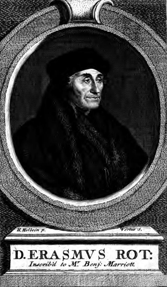 Portrait of Erasmus, from Samuel Knight, The Life of Erasmus (1726).